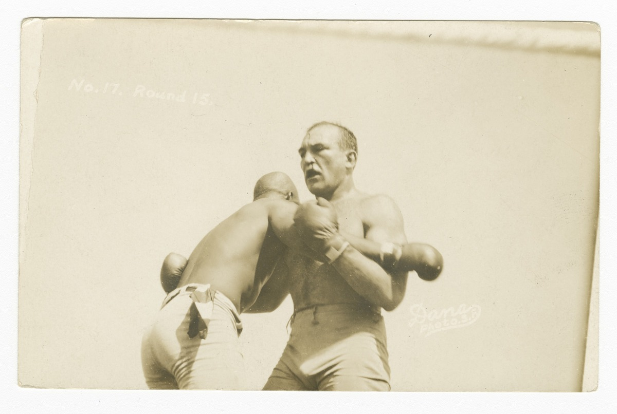 Photographic postcard of Jack Johnson and James J. Jeffries clinching